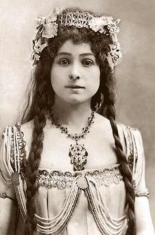 Alexandra David-Néel (1868 – 1969) in her teens See on the French home page of the Web Site of Alexandra David-Néel, created by the Association Alexandra David Neel à Digne-les-Bains.